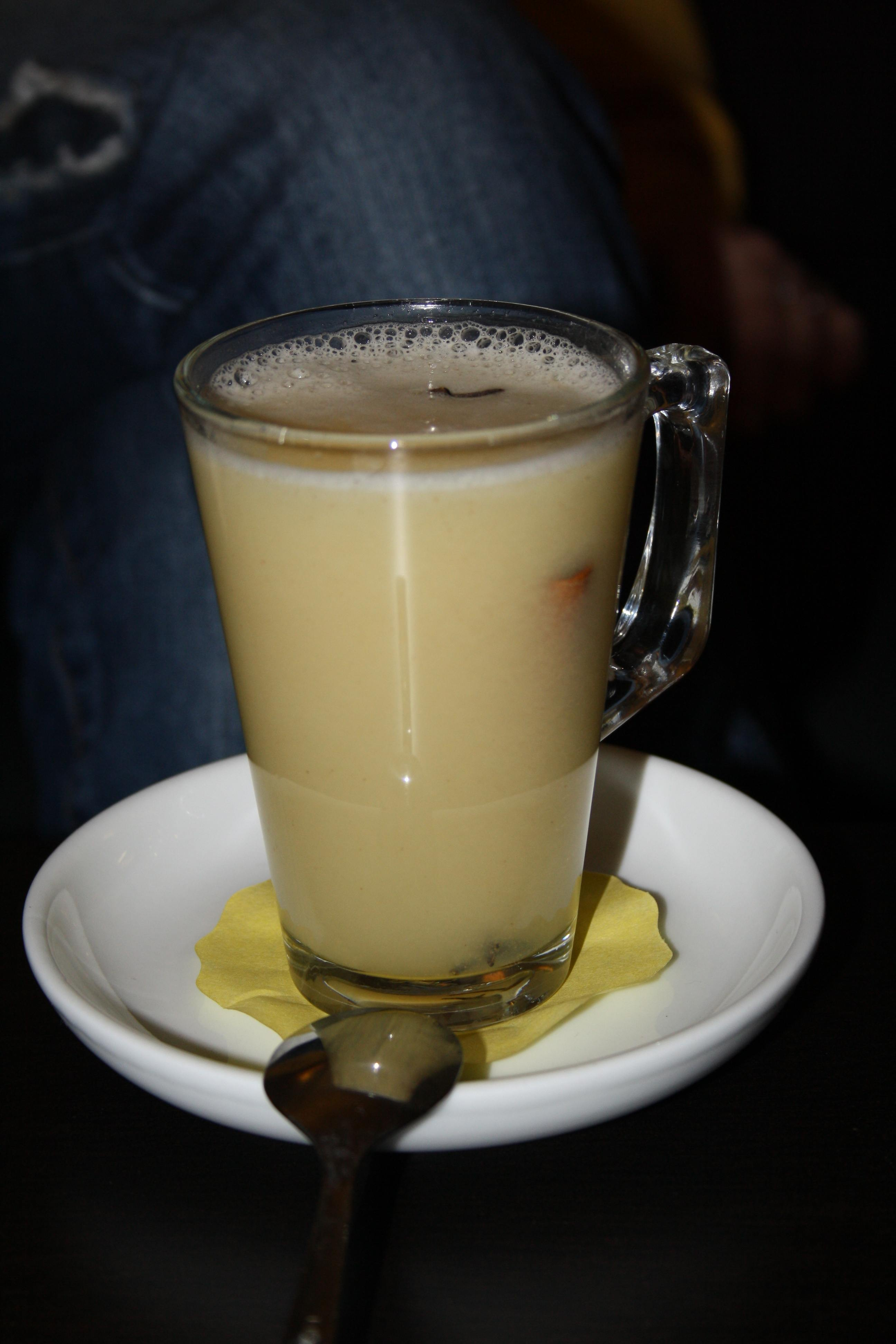 Warm mulled pear juice at glass.